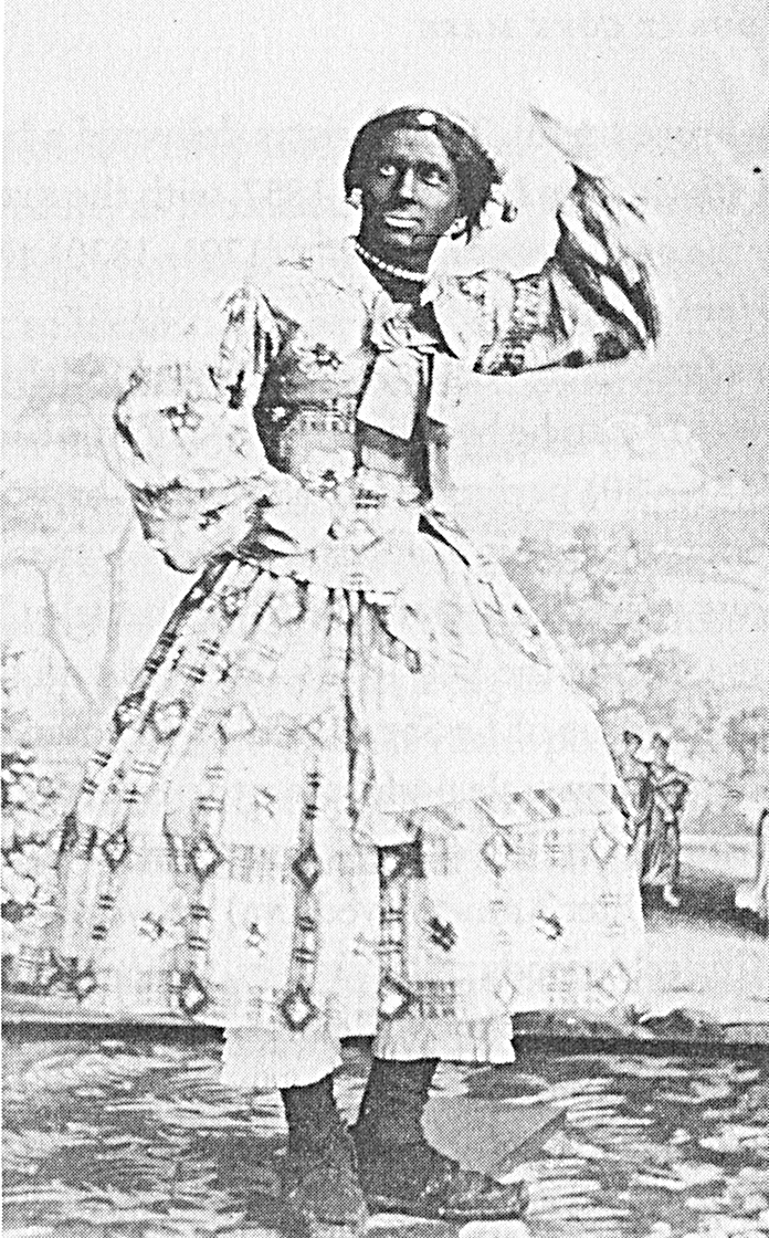 Minstrel show performer Rollin Howard (1840-1879) in wench costume.